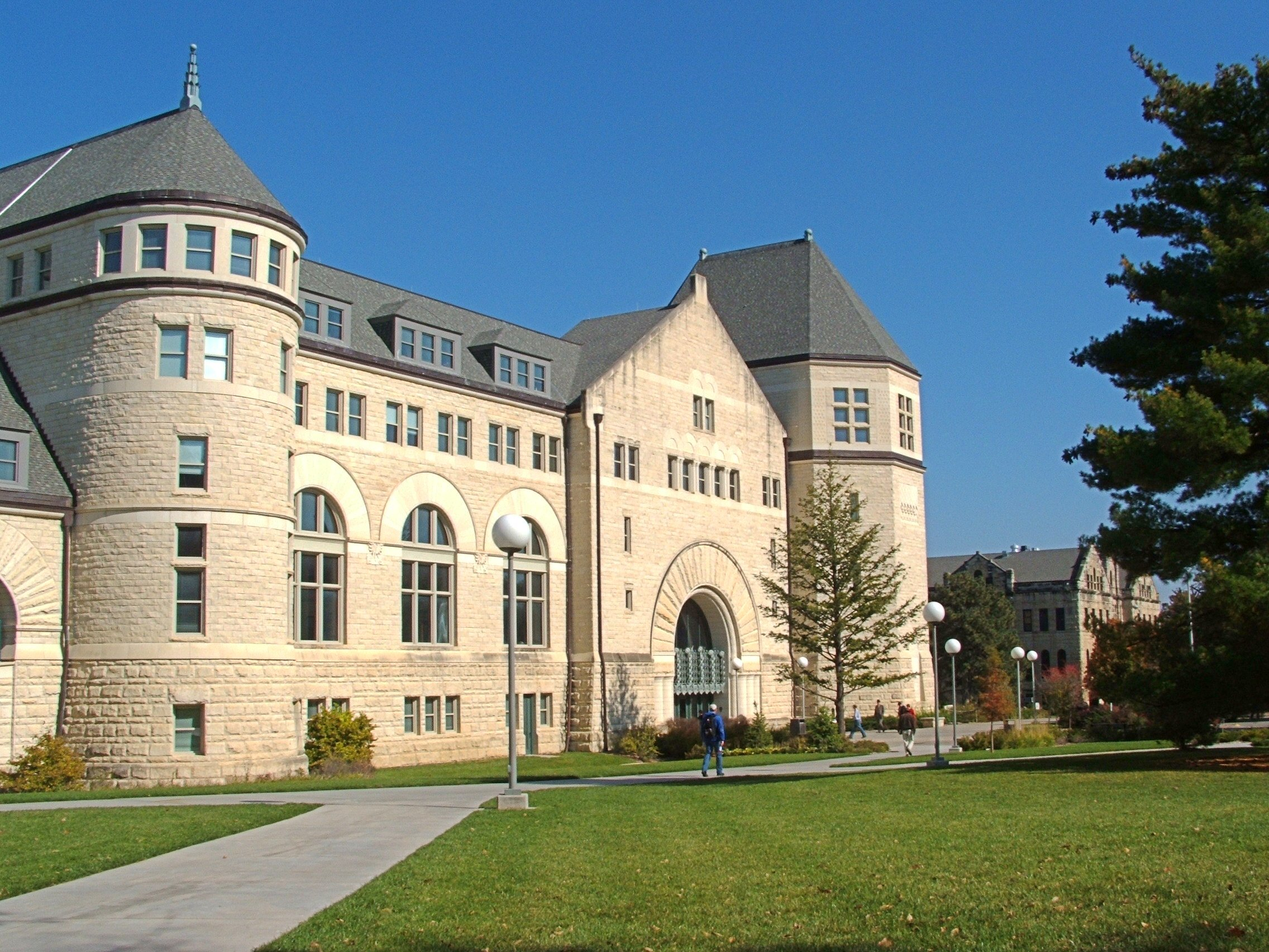 Hale Library on the Kansas State University campus in Manhattan, Kansas, USA. Taken October, 2005 modified with the GIMP